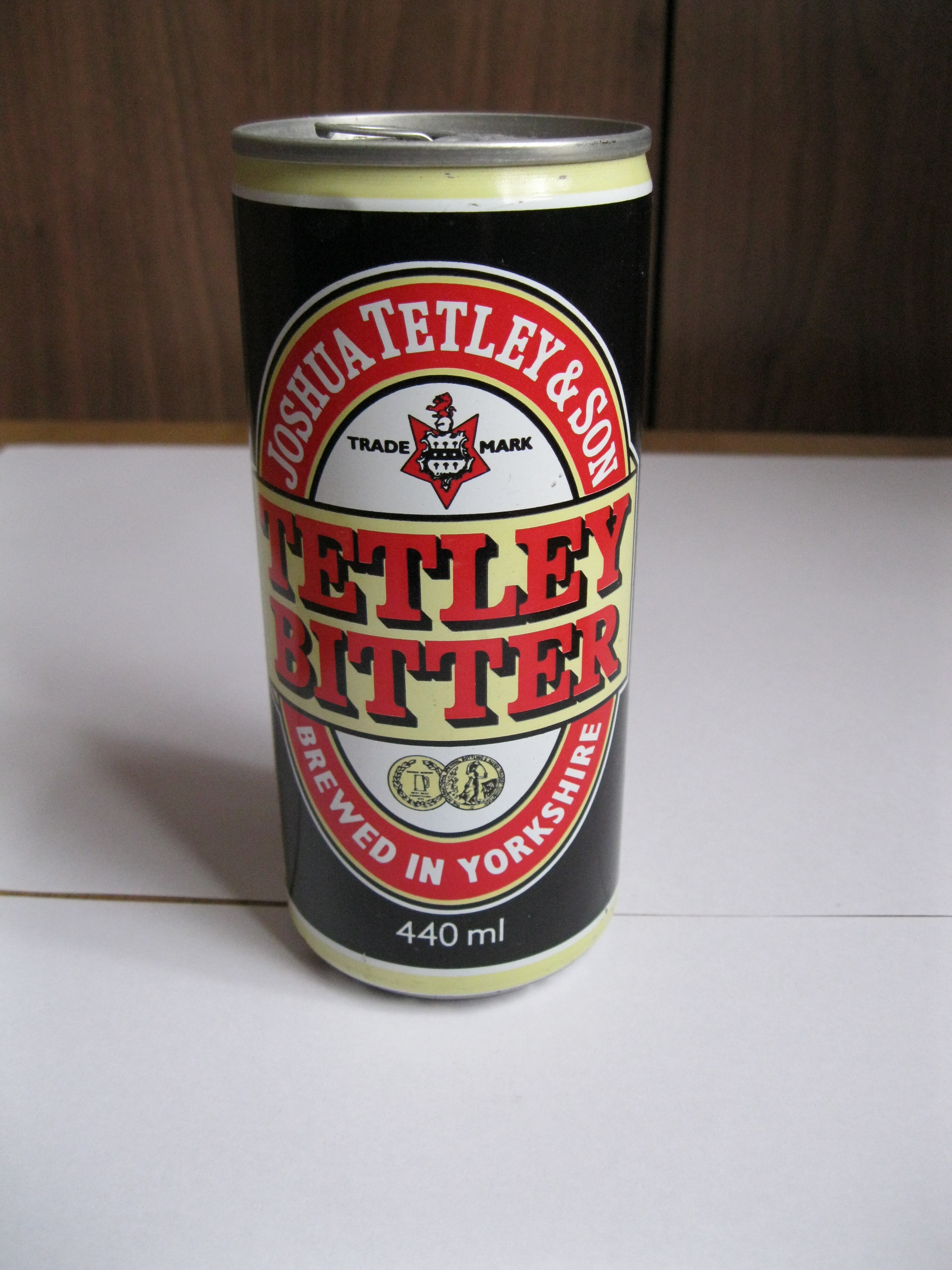 Can of Tetleys Bitter with a 1985 expiry date, found in my grandparents garage